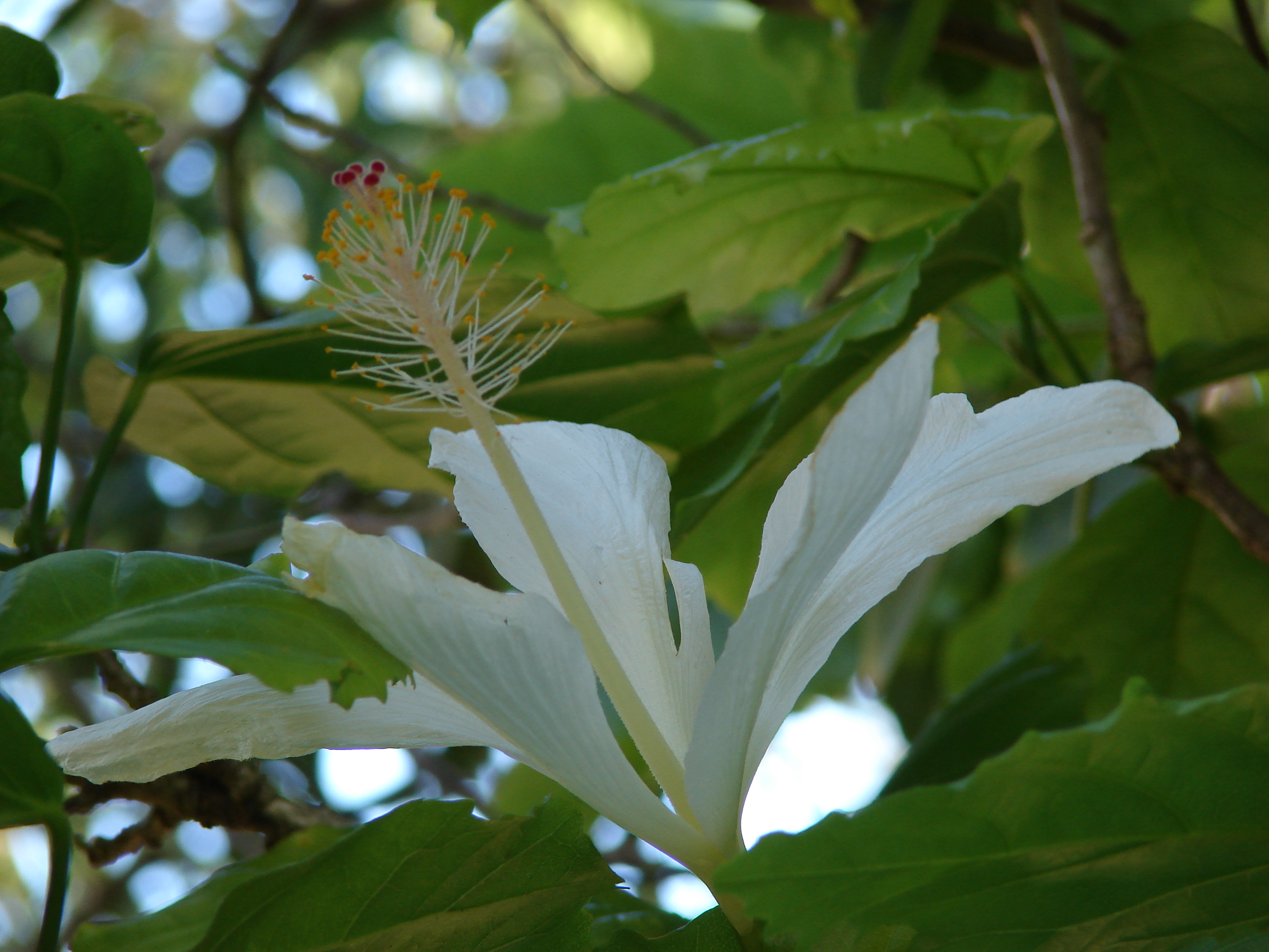 Hibiscus arnottianus subsp. immaculatus (flower and leaves). Location: Maui, Makawao